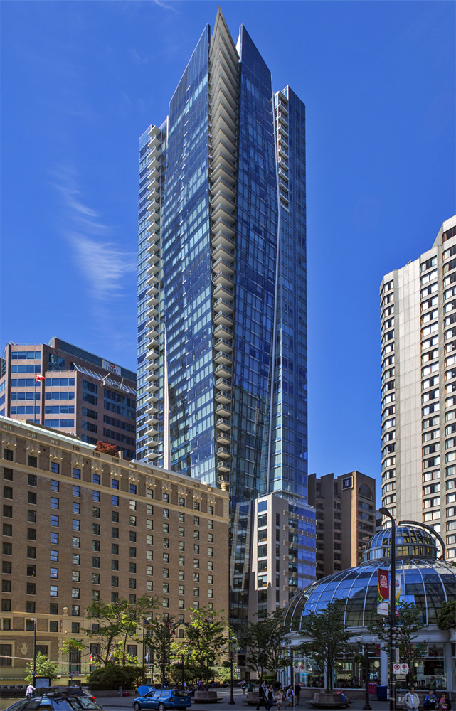 Private Residences at Hotel Georgia residential tower in Vancouver.